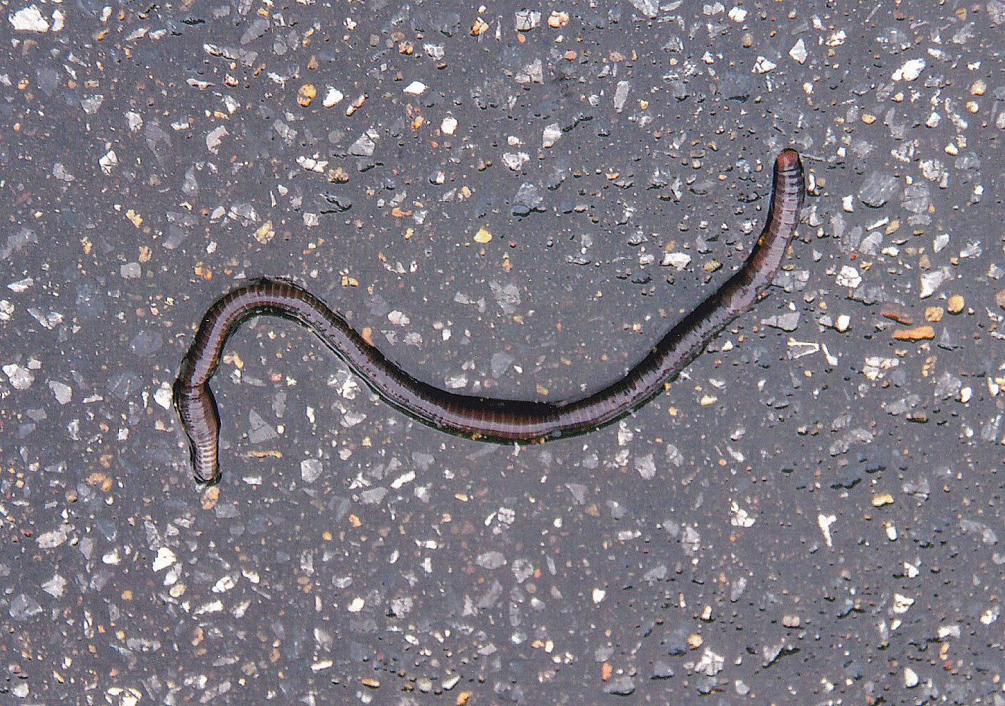 Large worm in Vietnam